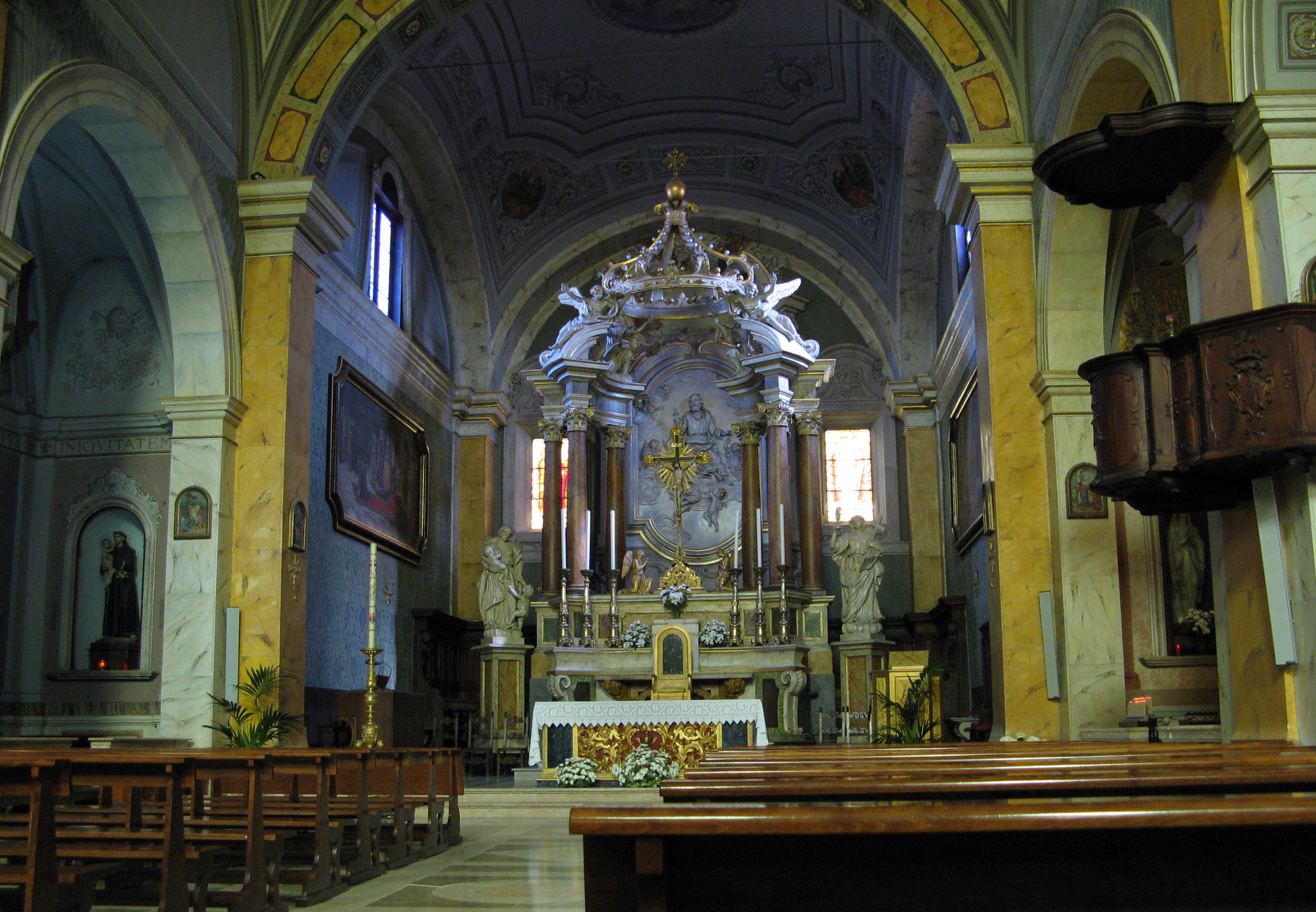 Inside view of duomo of Pitigliano (grosseto)